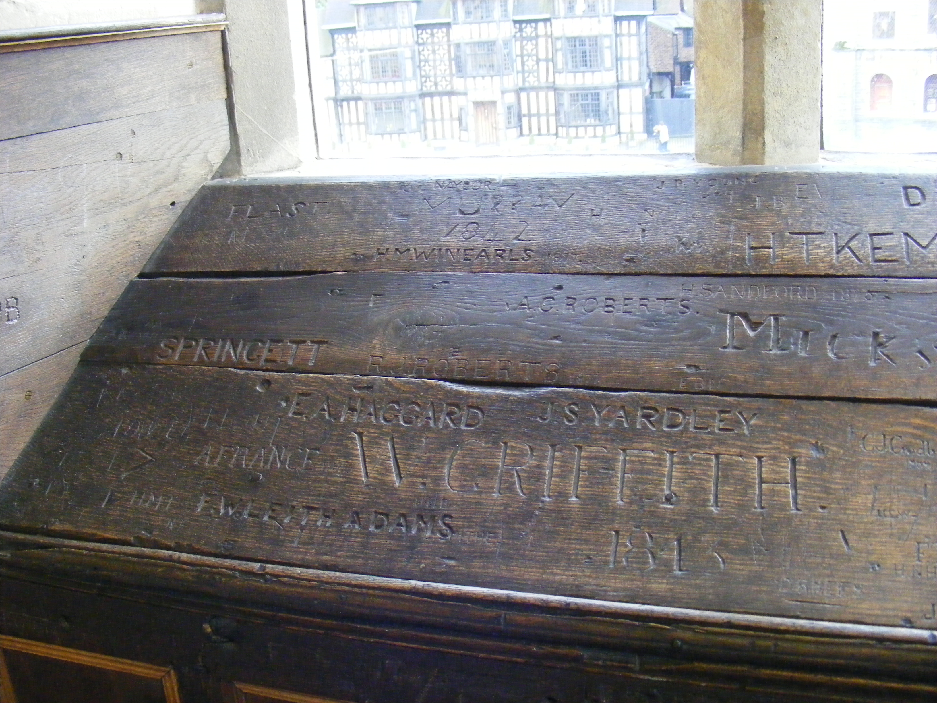 Pupils' names carved on wooden window cills in Castle Gates Library, Shrewsbury.